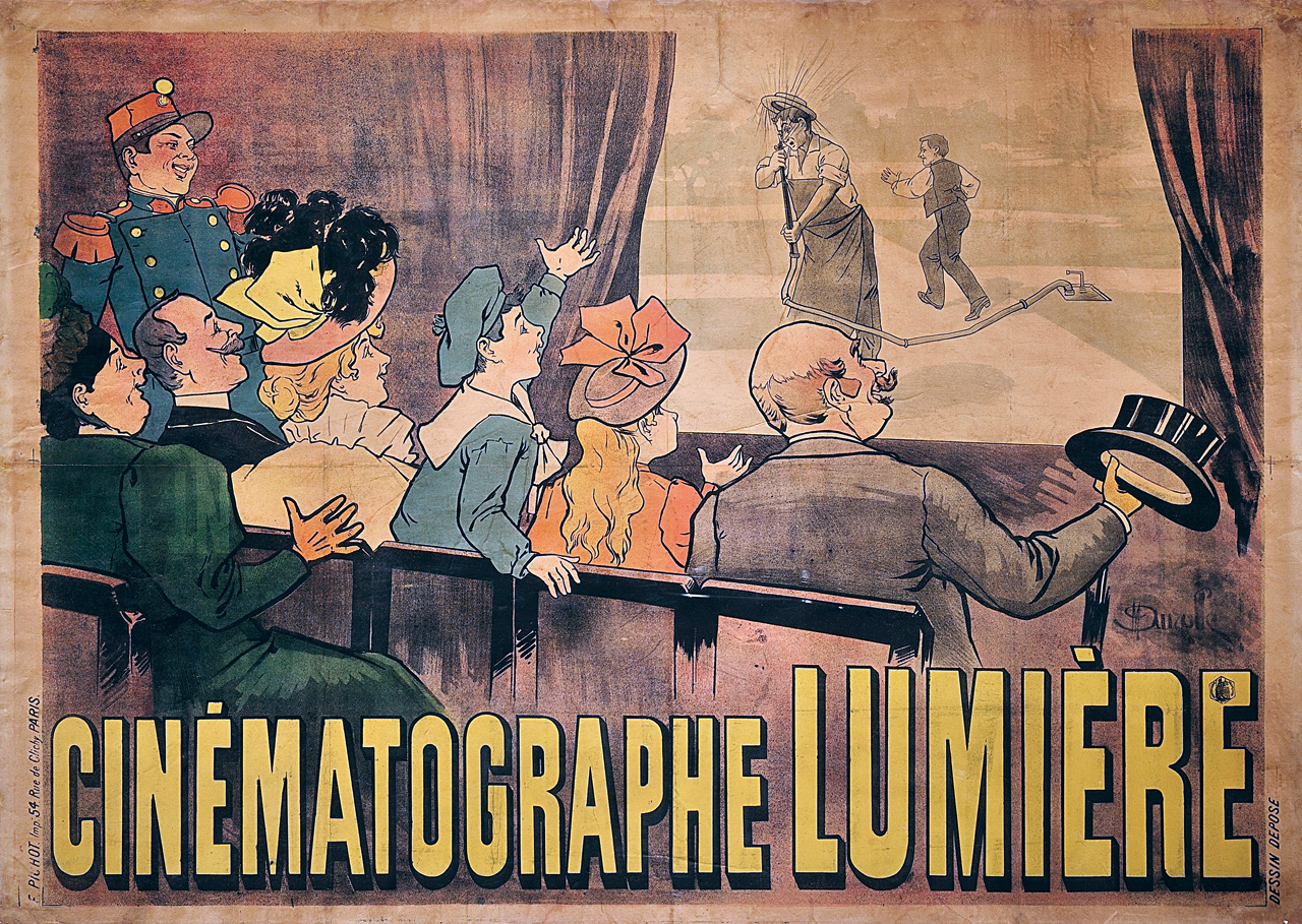 Early film posters in Romania.